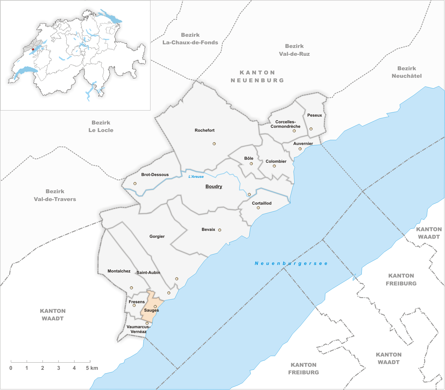 Municipality Sauges Artist: Tschubby